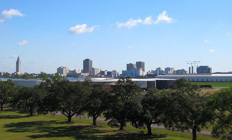 Baton Rouge's Skyline